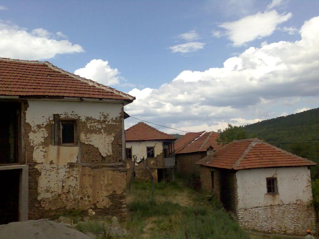 Village of Rastesh, Poreche region, Republic of Macedonia